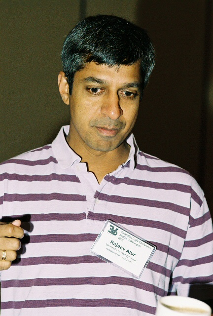 FLoC 2006: Rajeev Alur